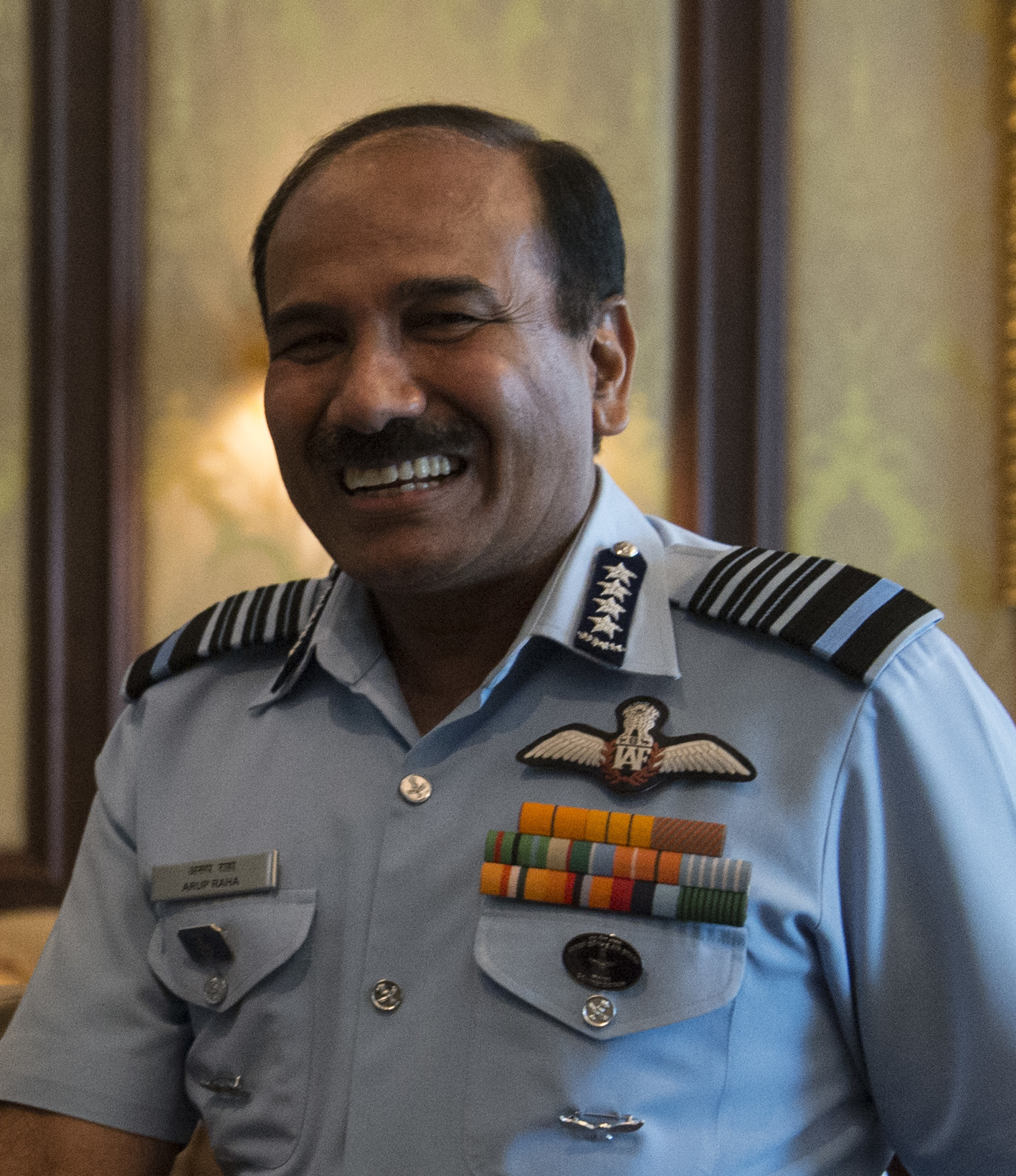 New Delhi, India (Aug. 9, 2014) -- Secretary of Defense Chuck Hagel hosts a bilateral meeting with Indian Chairman of the Chiefs of Staff, Air Chief Marshal Arup Raha in New Delhi, India, August 9, 2014. DoD photo by Petty Officer 2nd Class Sean Hurt/Released.